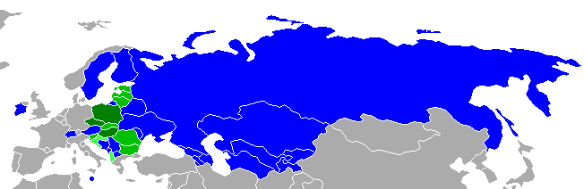 A map of member nations of NATO's Partnership for Peace (PfP). It appears that Malta joined PfP in April 1995 [1], left in October 1996 [2], and rejoined in April 2008 [3]; the map has been fixed to reflect this. Key: Current members of PfP PfP members that joined NATO in 1999 PfP members that joined NATO in 2004 PfP members that joined NATO in 2009